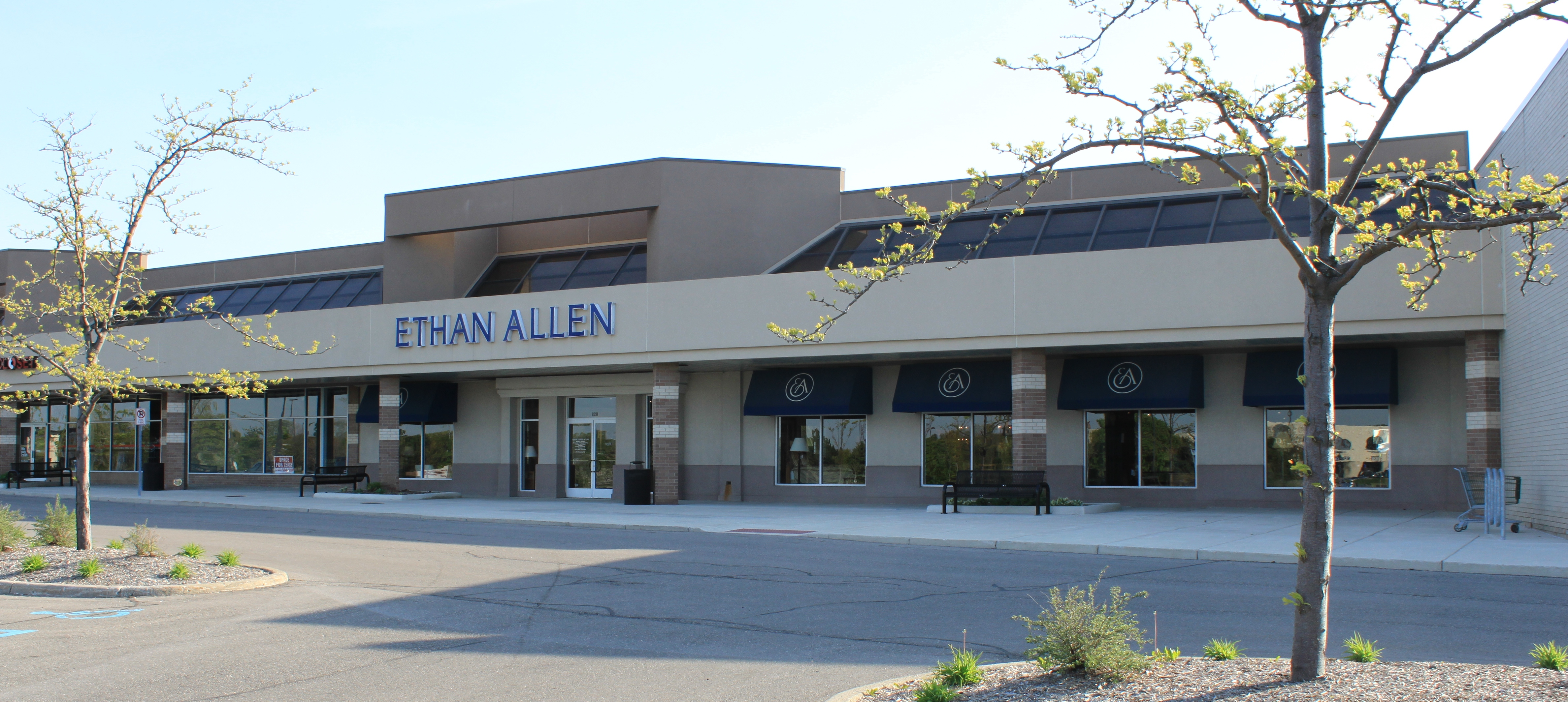 Ethan Allen store, 820 W. Eisenhower Pkwy, Ann Arbor, MI 48103